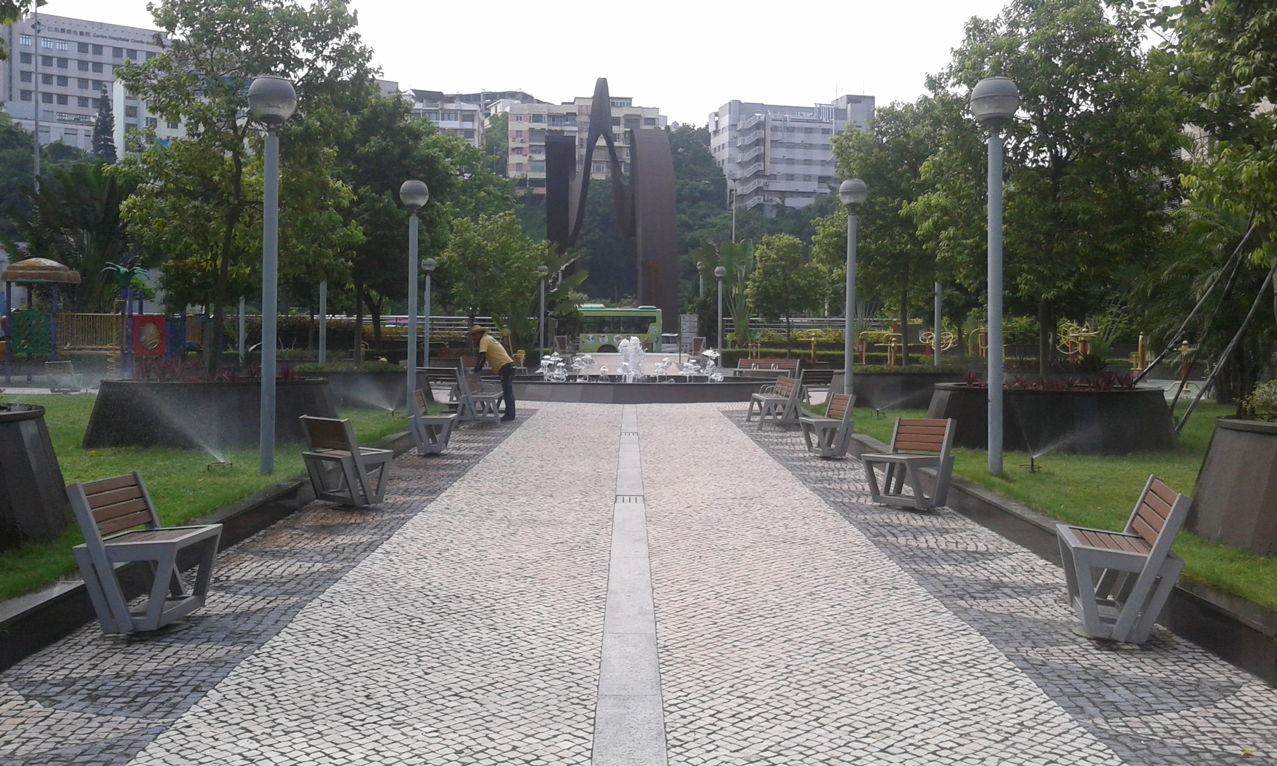 Jardim Comendador Ho Yin,Macau